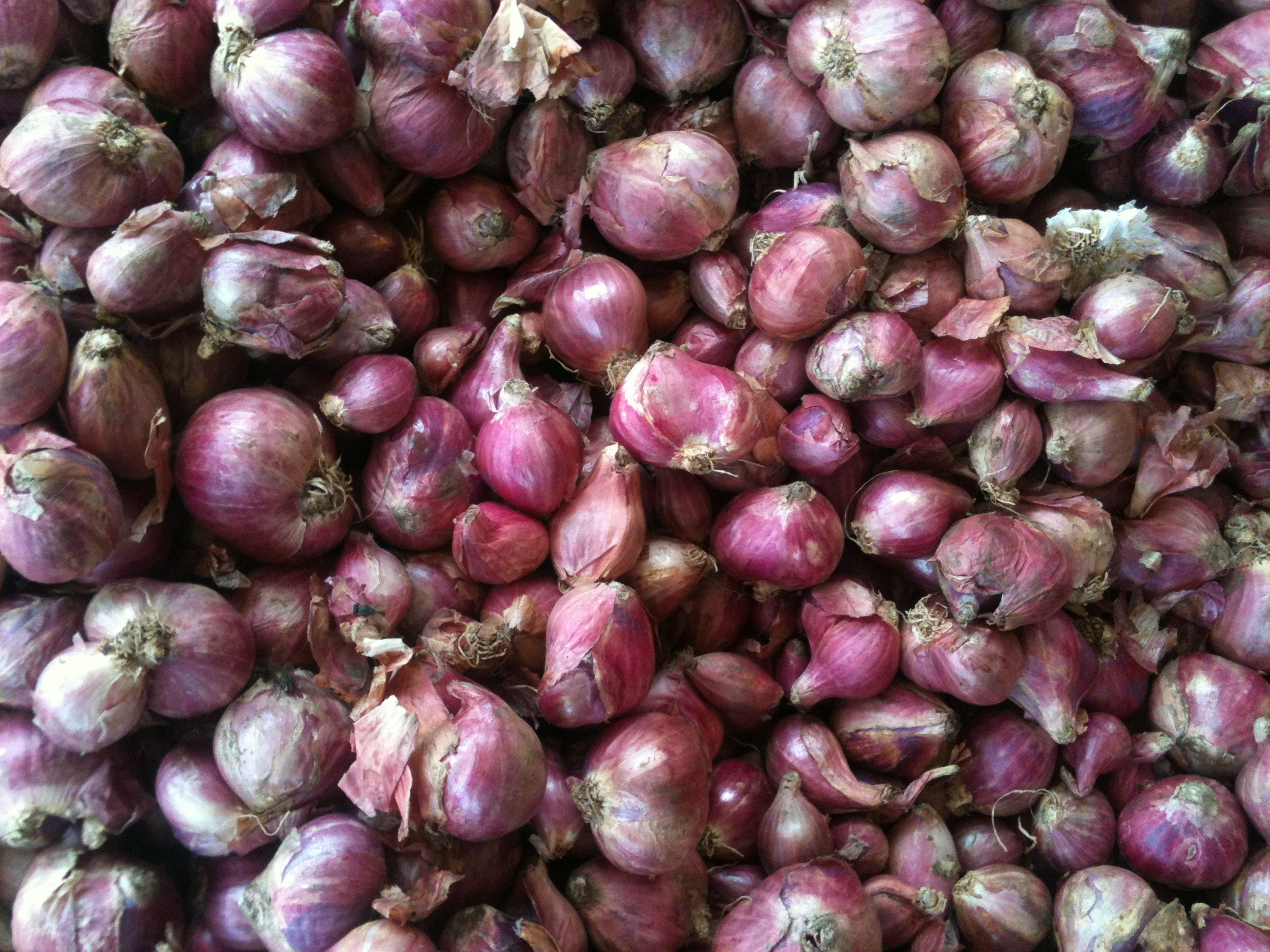 Shallots, a.k.a Small Onions of South India.